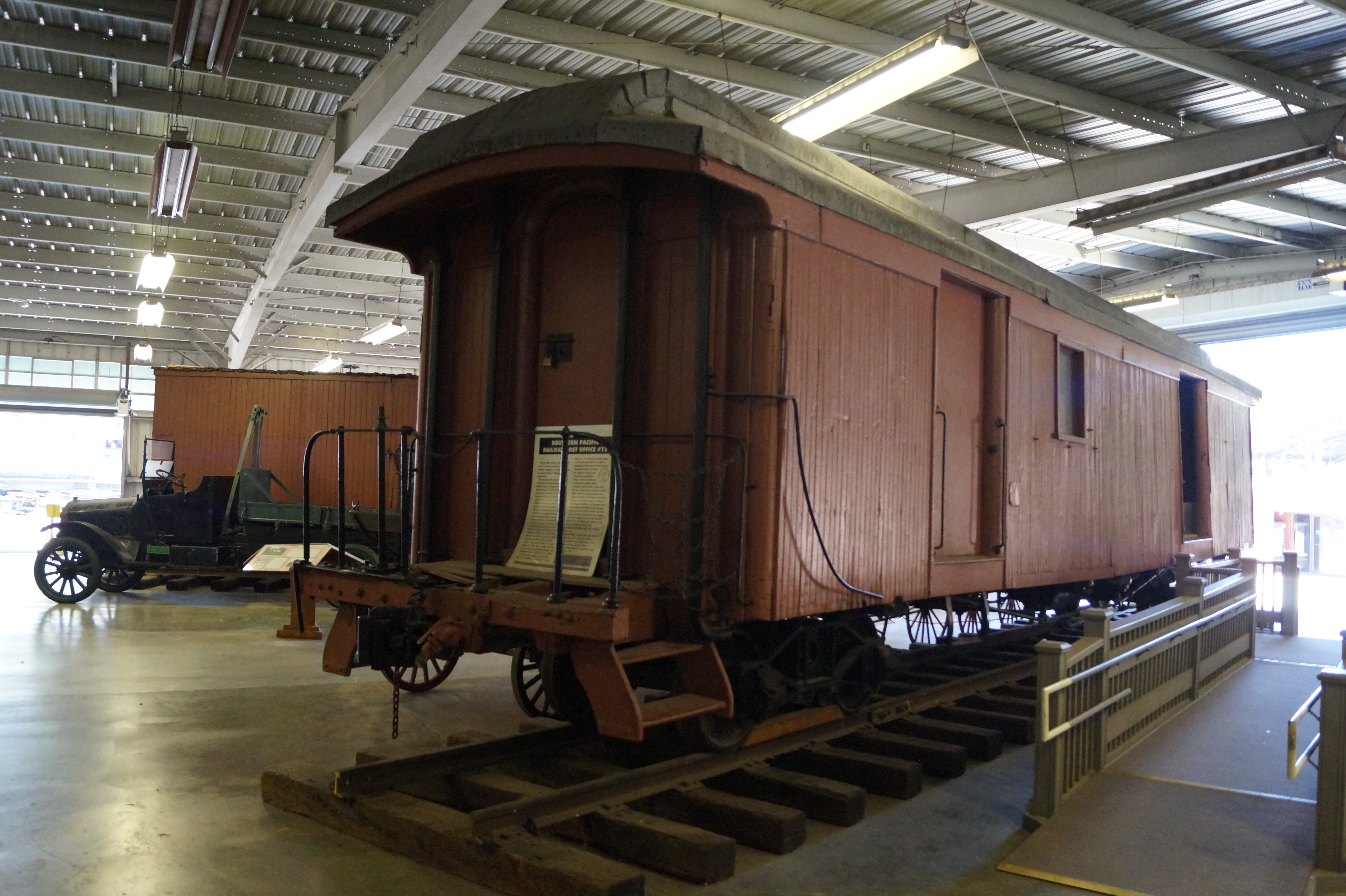 Travel Town Museum is a transport museum dedicated in the northwest corner of Los Angeles, California's Griffith Park. The history of railroad transportation in the western United States from 1880 to the 1930s is the primary focus of the museum's collection, with an emphasis on railroading in Southern California and the Los Angeles area.